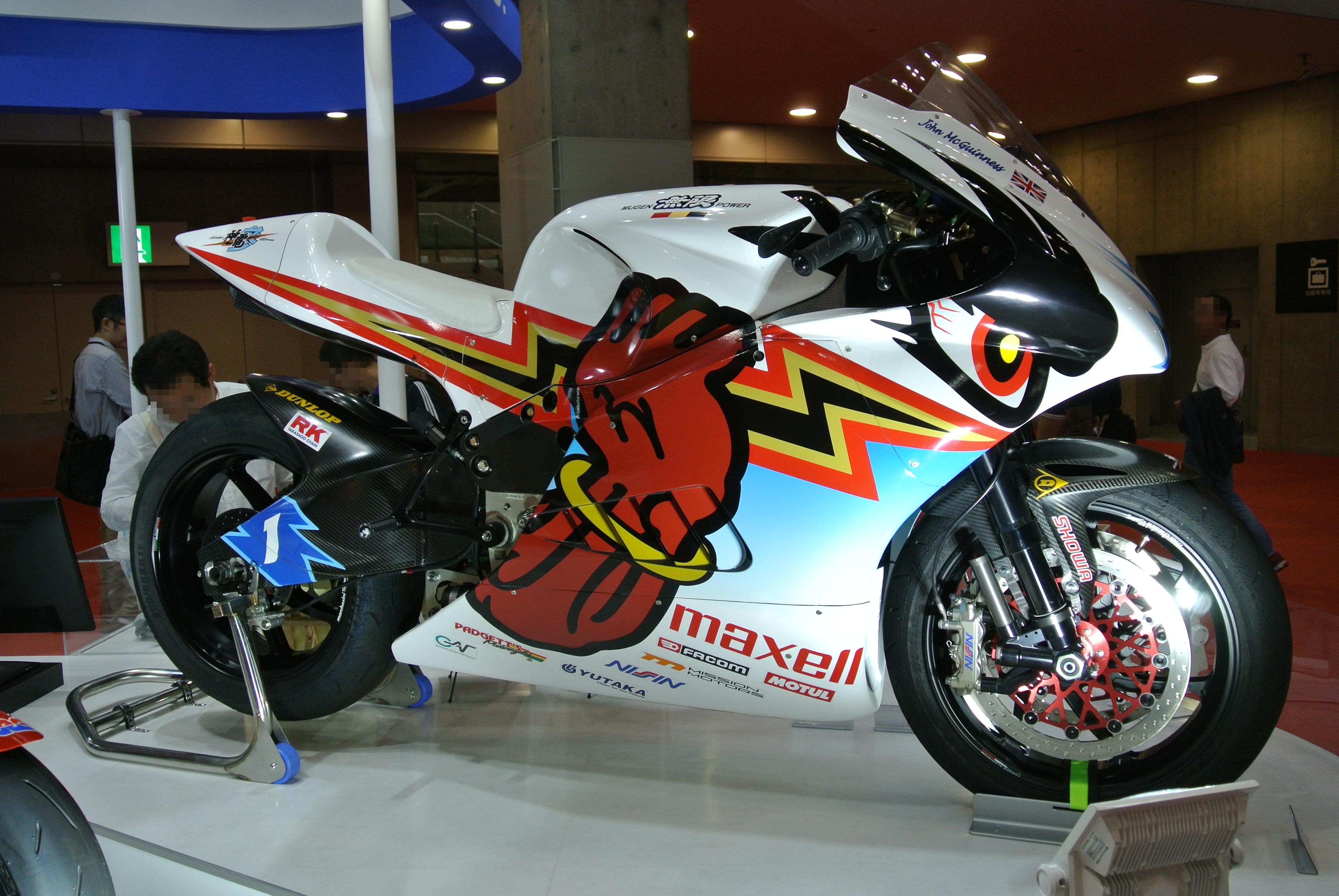 2014 Isle of Man TT Electric Category Champion's Mugen "Sinden San - 神電 - 参" (God Electric Type3) at the Tokyo Motor Show 2015.